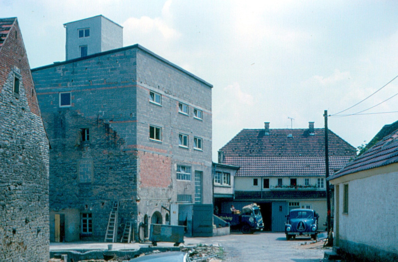 Duttenberger Engelbrauerei, a microbrewery before microbreweries were invented. This is where Duttenberger Engelbräu, the marvelous beer that was served at the Post Michel in Heilbronn, is brewed. Hardly a romantic scene of elves making beer in the Black Forest! An internet site says that the brewery was closed in 1988.